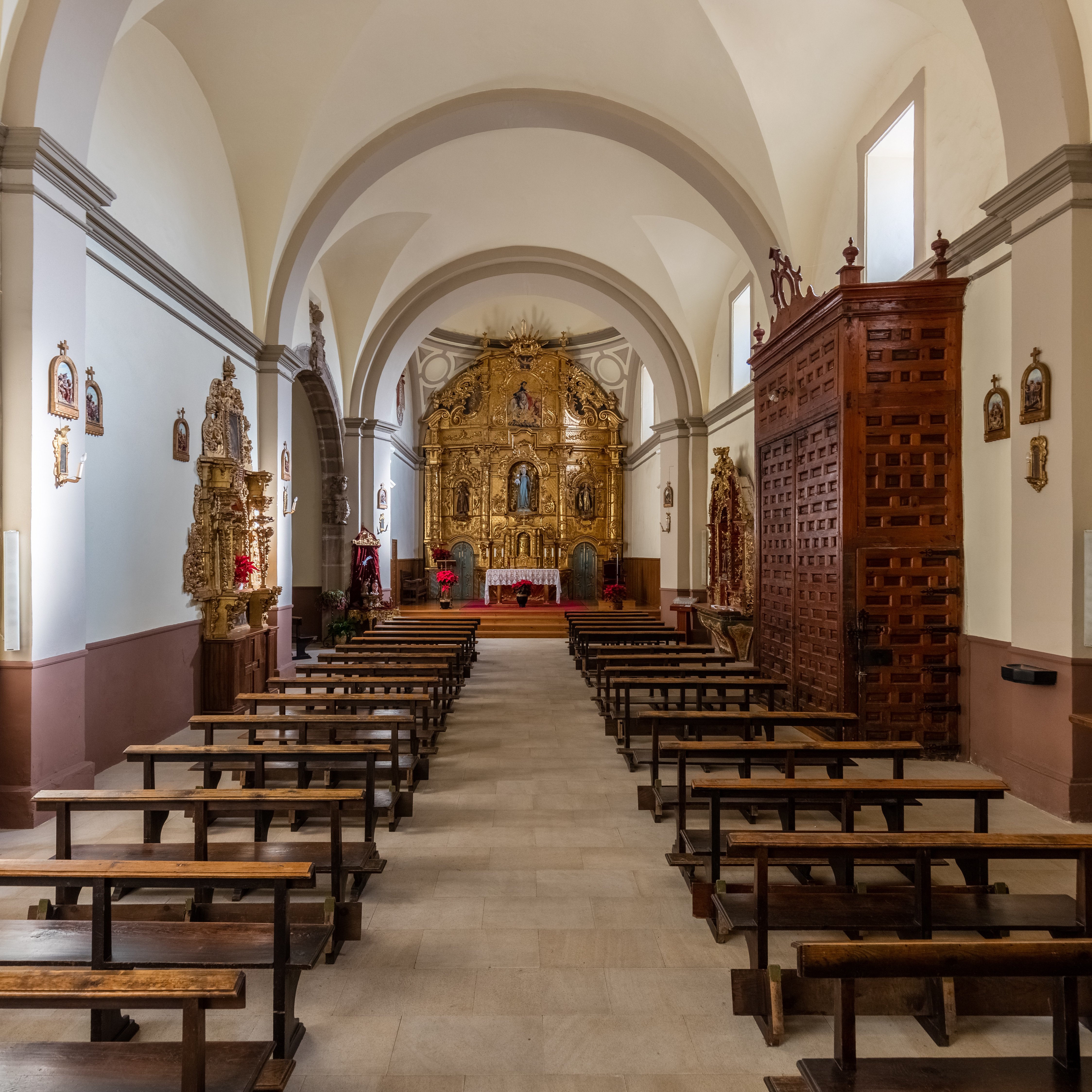 Convent of Santa Isabel, Medinaceli, Soria, Spain